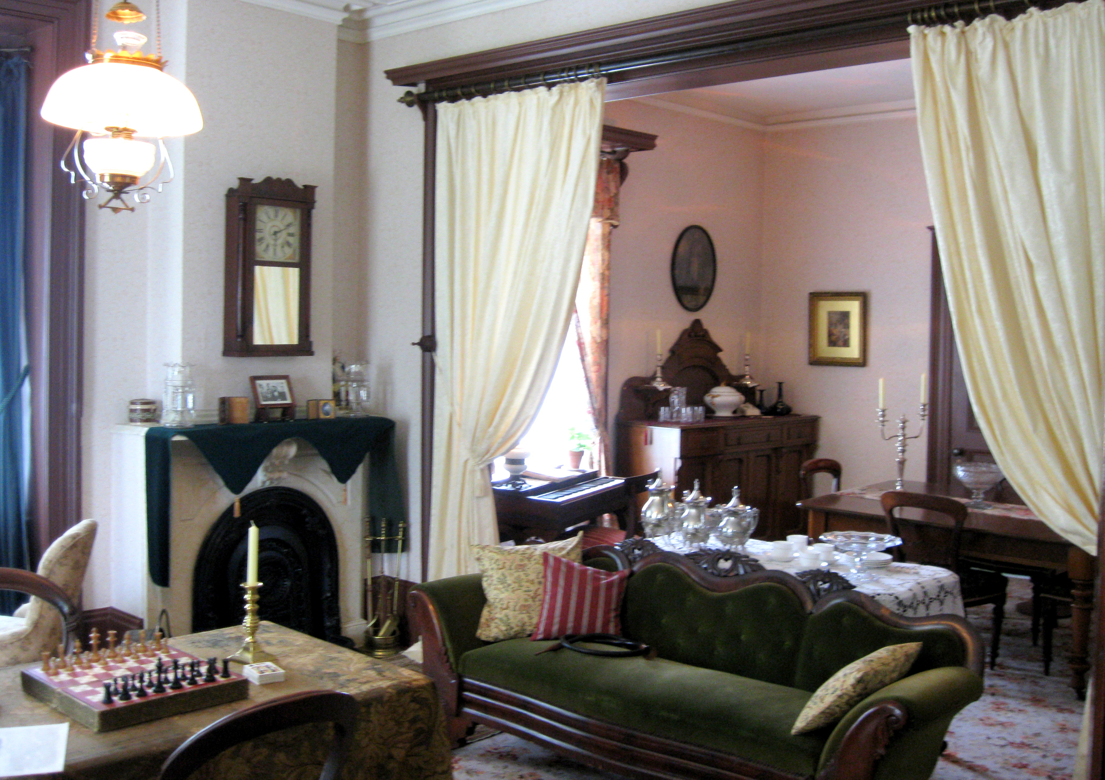 A portion of the drawing room on the lower level of Melville House, at the Bell Homestead National Historic Site of Canada, in Brantford, Ontario.